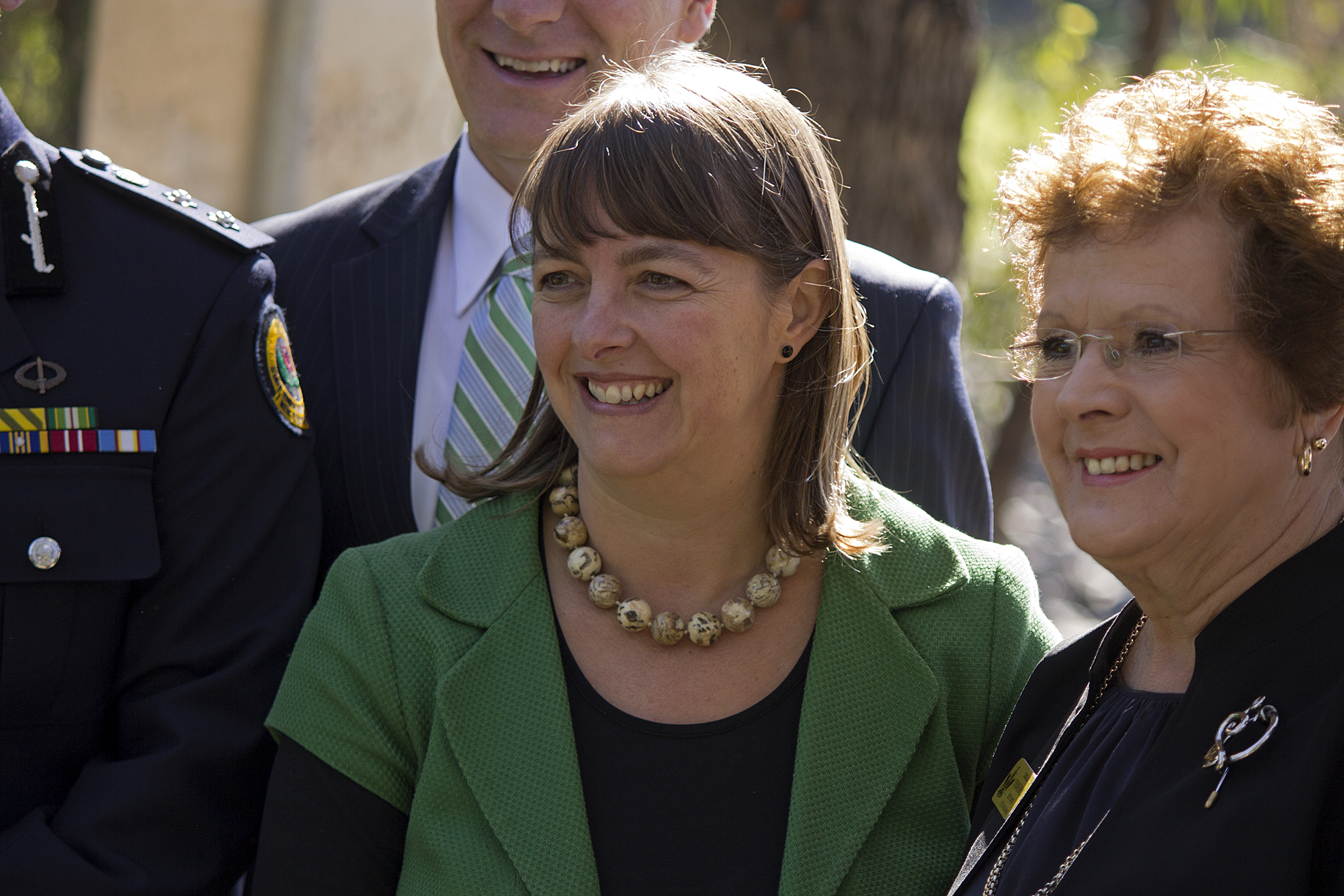 Attorney-General of Australia and Emergency Management Minister, Nicola Roxon and Deputy Mayor of Wagga Wagga, Councillor Yvonne Braid during a media photo shoot on the banks of the Murrumbidgee River in Wagga Wagga, New South Wales.